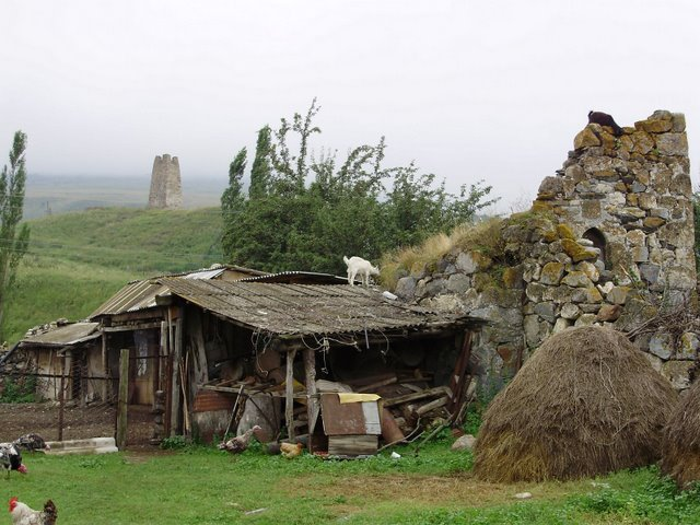 Medieval towers in Dargavs. North Ossetia. Ирон: Хохы Дæргъæвс. Республикæ Цæгат Ирыстон — Алани.